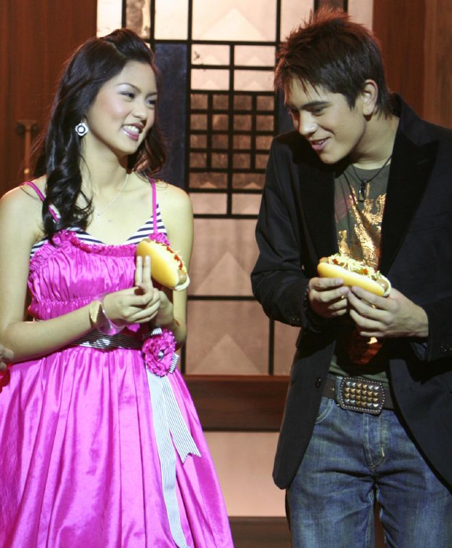 Kim Chiu & Gerald Anderson, the youngest and latest love team on the block. The pair was discovered on the Teen Edition of "Pinoy Big Brother". Both landed regular gigs on a sitcom, a soap opera & a teleseries plus won lucrative endorsement deals.